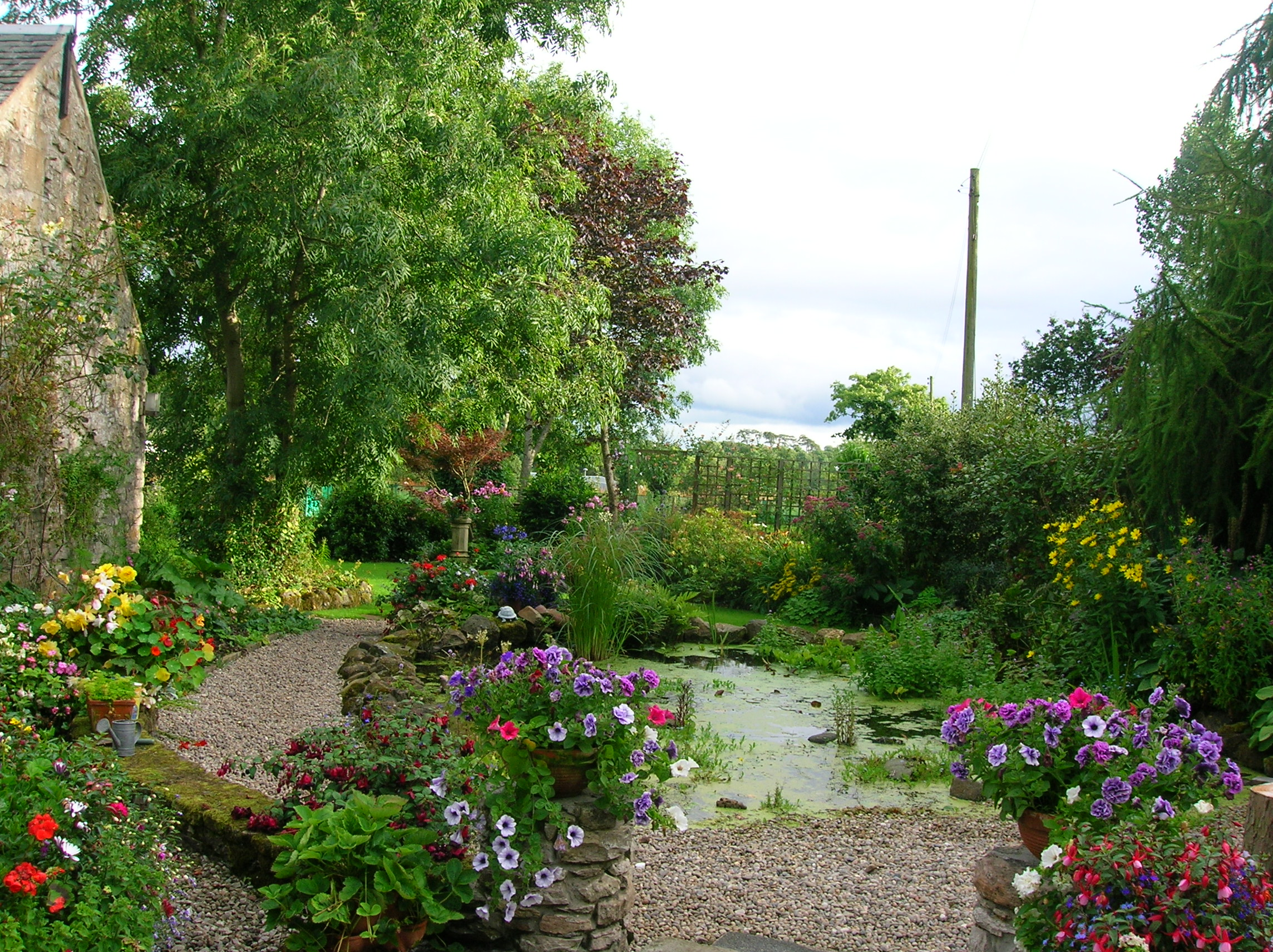 The main garden feature in front of Kilamurs Place, East Ayrshire, Scotland